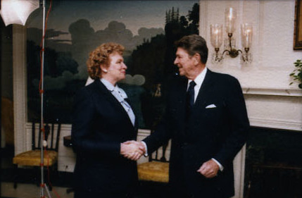 President Ronald Reagan, Arliss Sturgulewski, Peter Simpson, Alan Simpson, Mitchell Daniels, Haley Barbour, Andrew Card, and Ray Shaddick, (Not in all Photos) (1A-34A) Photo opportunity with Republican candidates